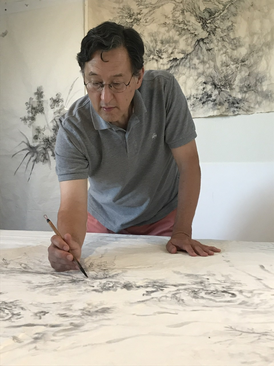 Arnold Chang, Zhang Hong, Chinese painter, Chinese paintings, contemporary Chinese art